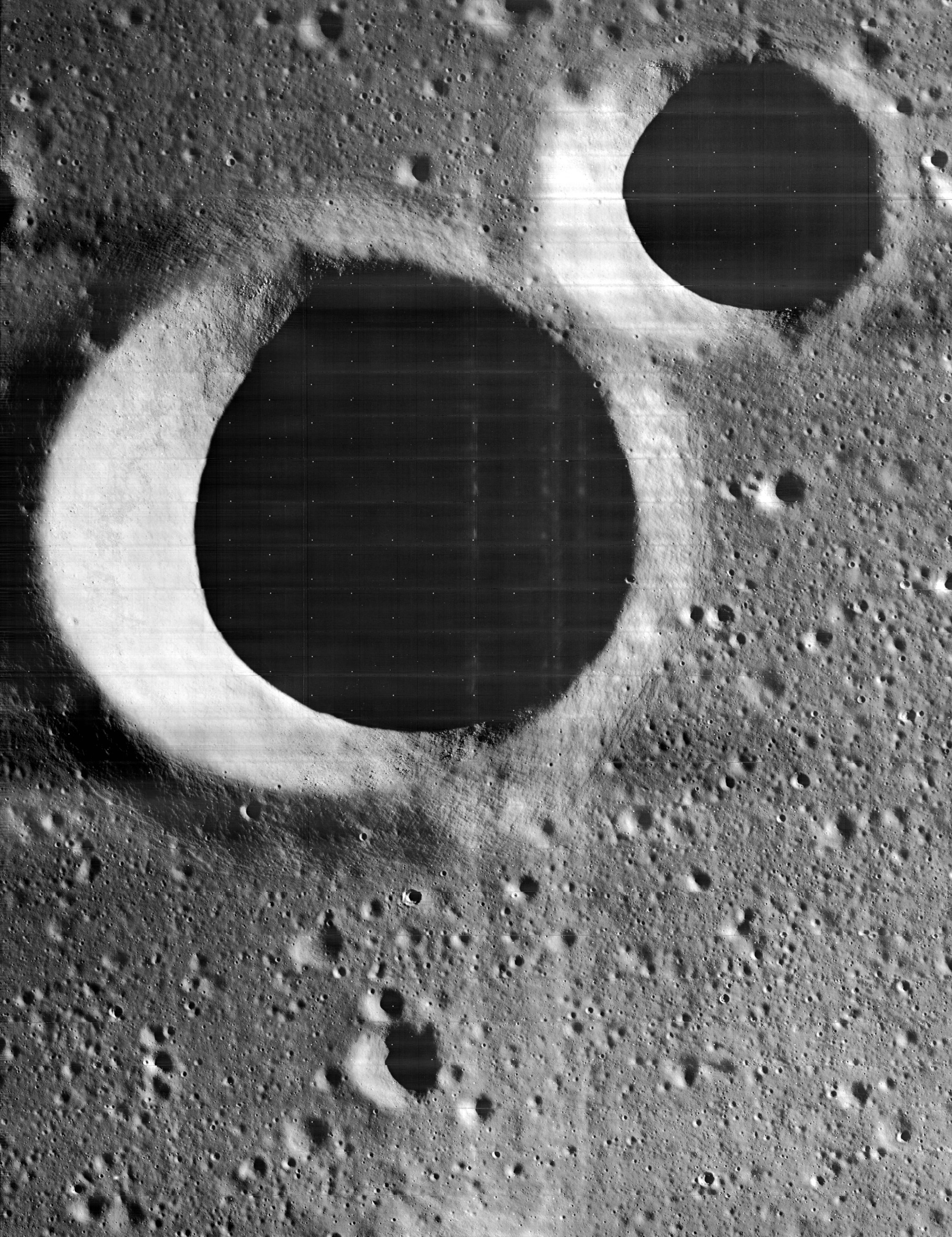 Close up of Maestlin G crater (largest crater), 3.28 km in diameter, located west of Maestlin, on the moon.